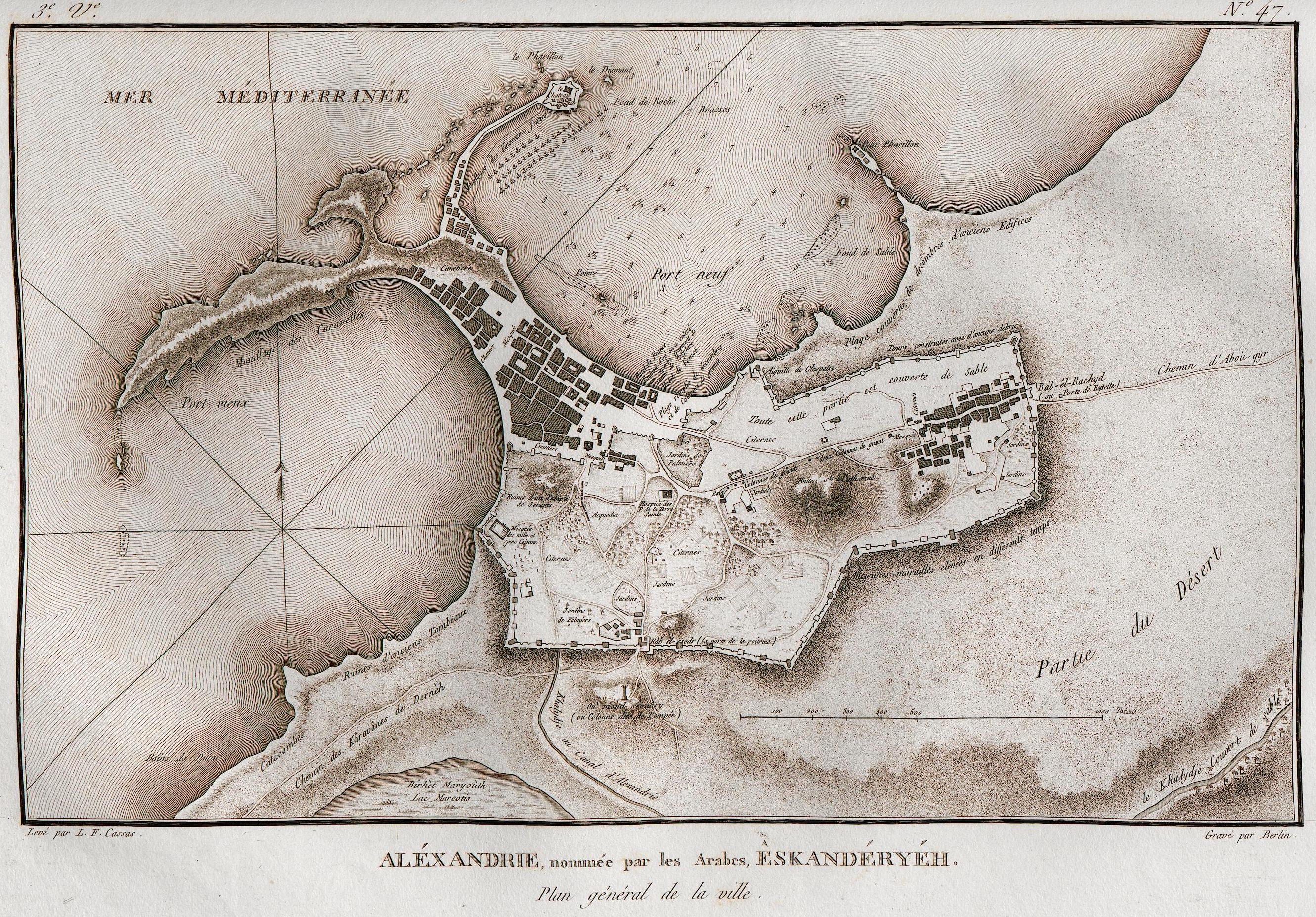 Louis-François Cassas From: Voyage pittoresque de la Syrie, de la Phoenicie, de la Palaestine et de la Basse Aegypte: ouvrage divisé en trois volumes contenant environ trois cent trente planches